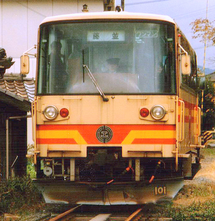 Arita-Railway type Haimo180-101 RailBus(Japan).(Japan,Wakayama prefecture).